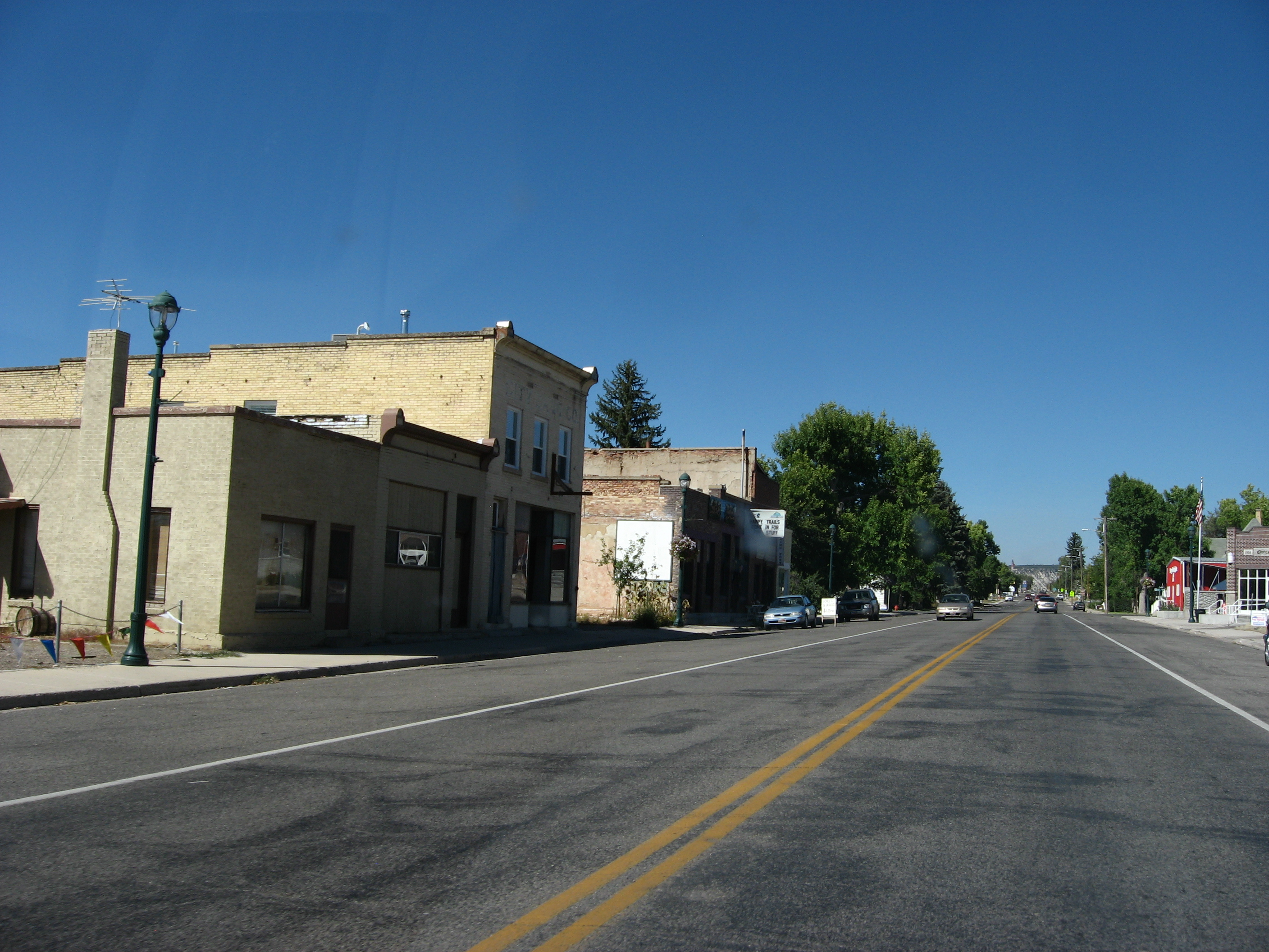 Fairview, Sanpete County, Utah, United States.